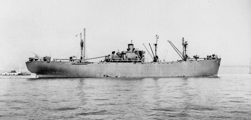 Broadside view of Liberty ship Underway near the Matson Navigation Co. piers in San Francisco, for conversion to Naval service, 30 March 1943. US Navy Yard Mare Island photo # 2129-3-43, 3/30/43.